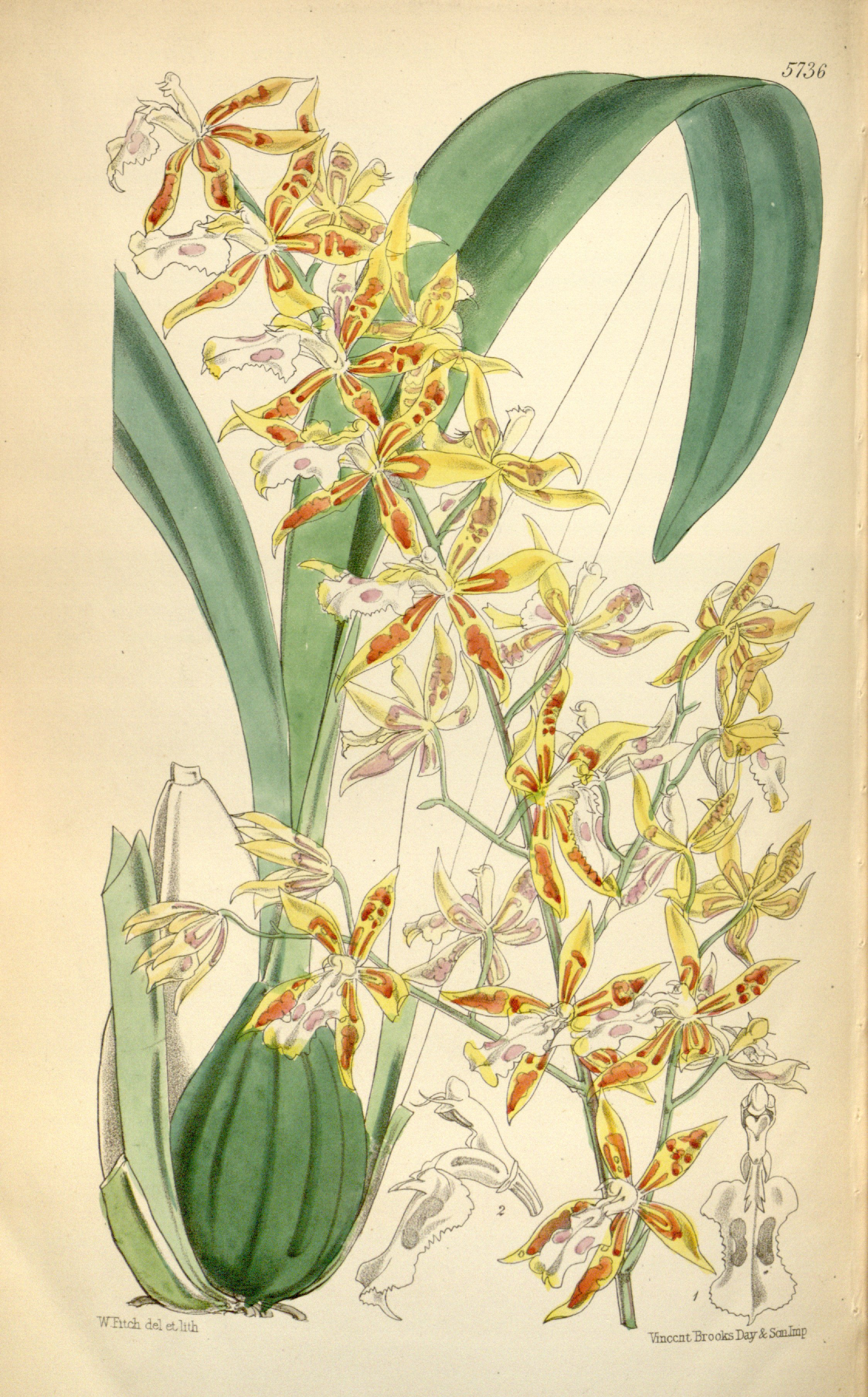 Illustration of Odontoglossum constrictum